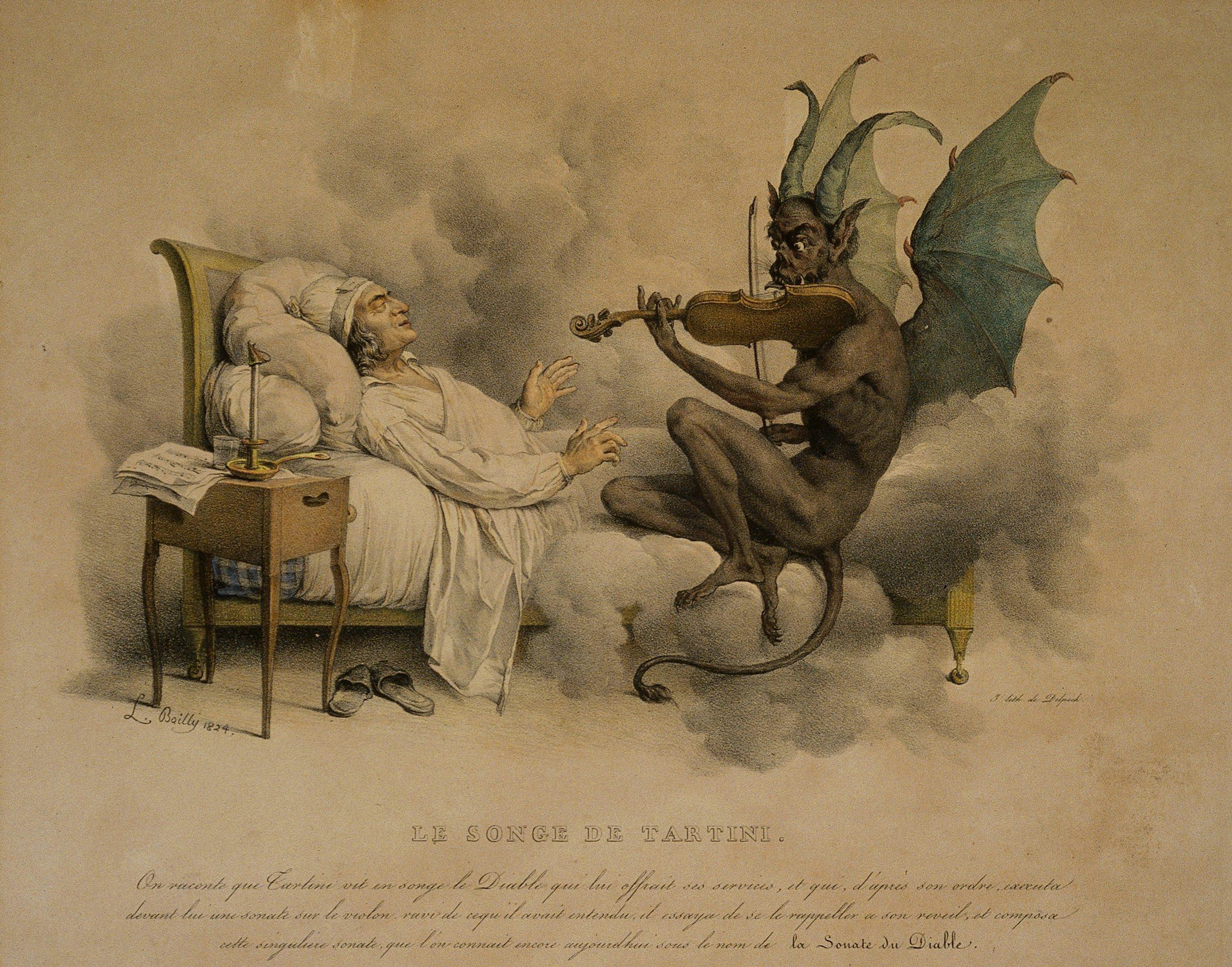 "Tartini's Dream" by Louis-Léopold Boilly (1761-1845). Illustration of the legend behind Giuseppe Tartini's "Devil's Trill Sonata".